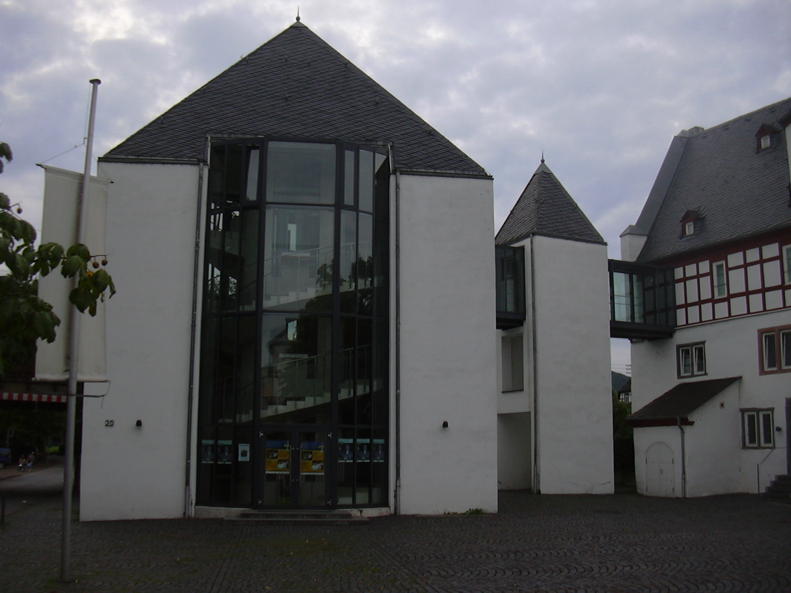 Lahnstein theatre, entrance building (Rhine Valley, Germany)